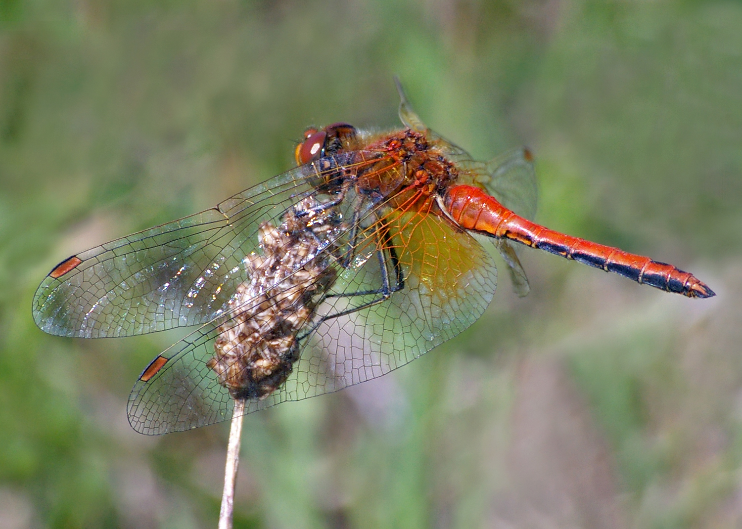 Male specimen of the dragonfly Sympetrum flaveolum.